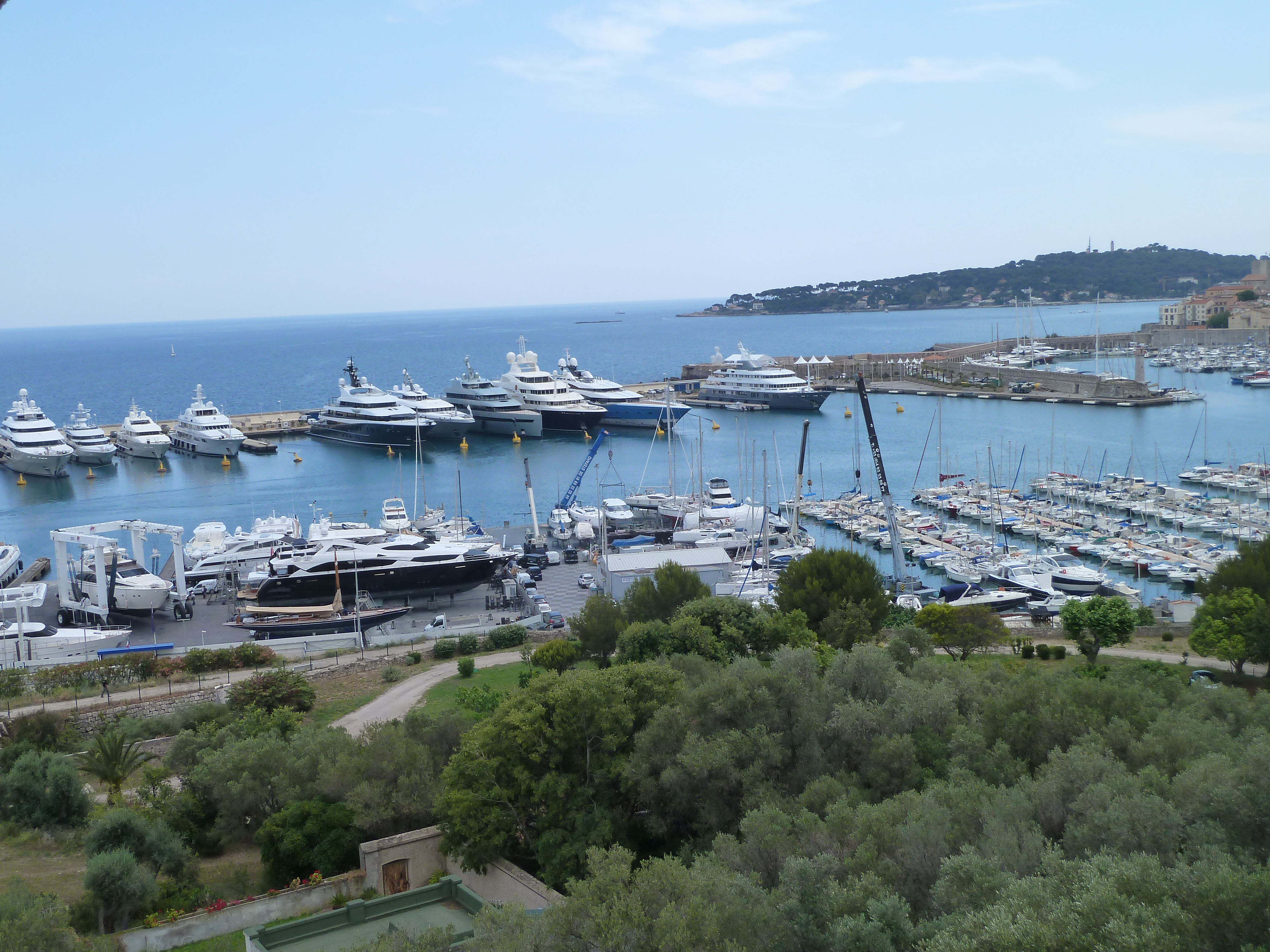 Port Vauban Antibes